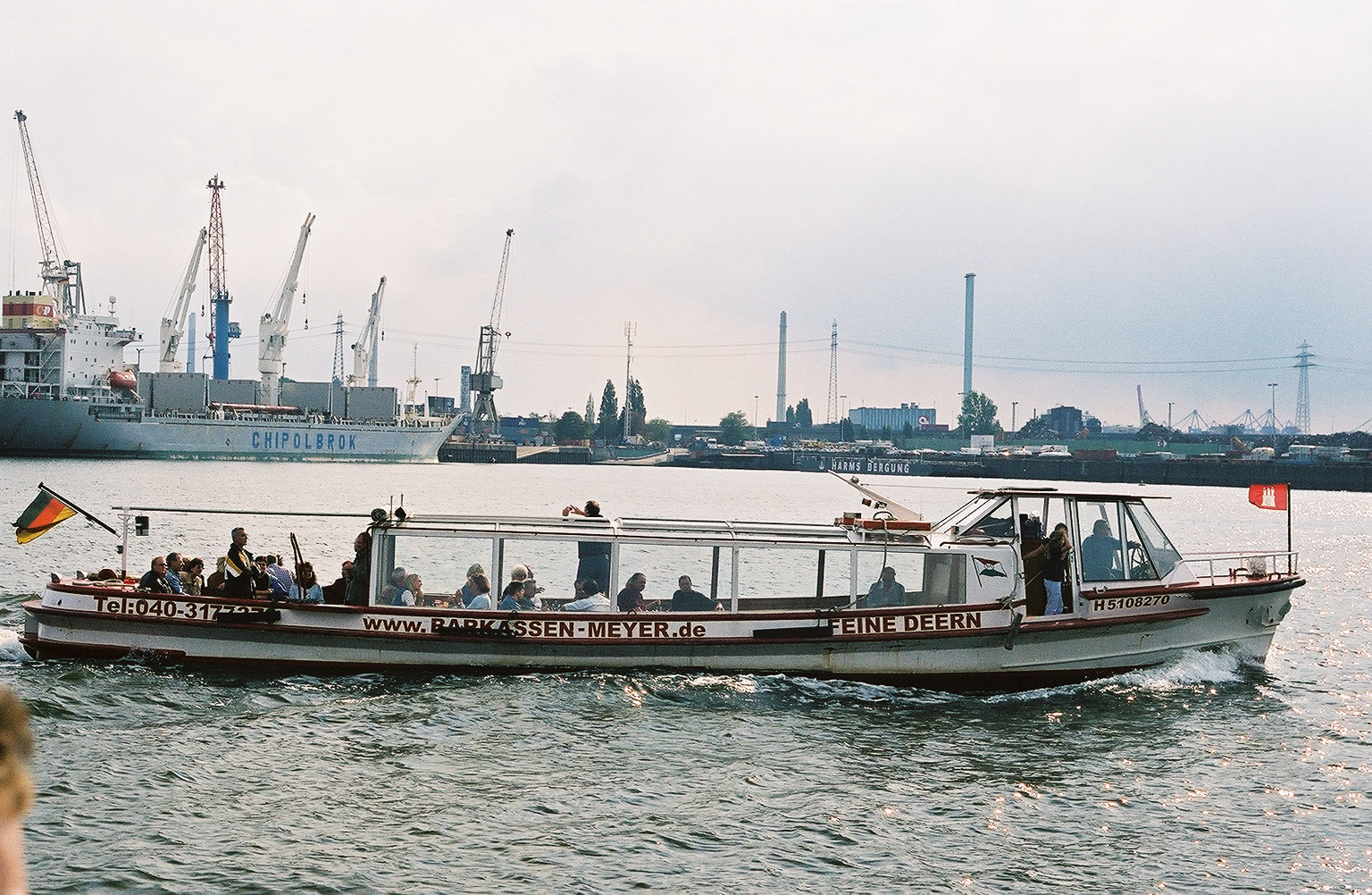 A tour boat in Hamburg Harbour.